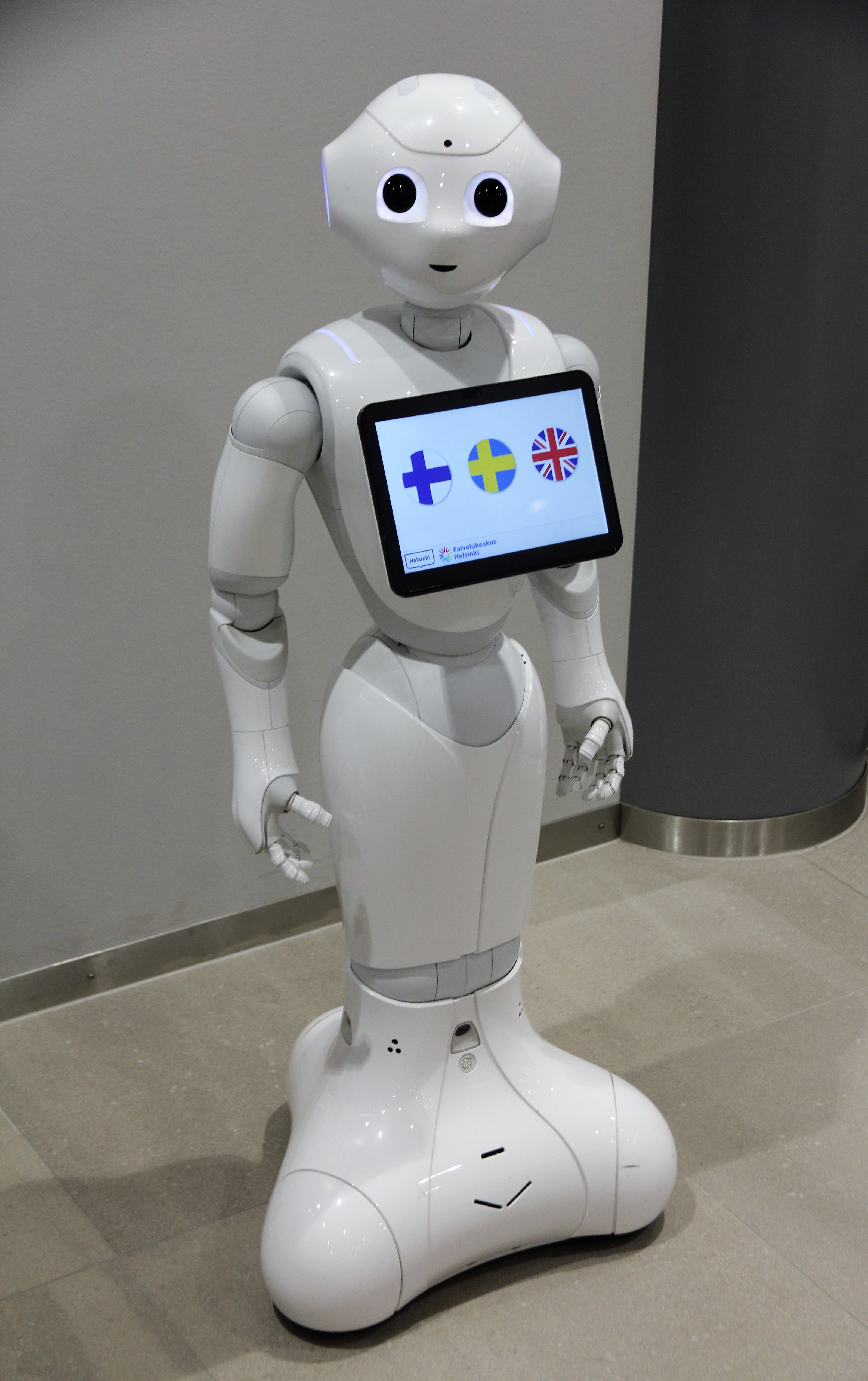 Service robot (for information/instructions) in the lobby Kalasatama health and wellfare centre in Kalasatama subarea of Sörnäinen, Helsinki, Finland. This service centre started its operations on February 5th, 2018 before which three smaller health stations were closed. Address: Työpajankatu 14 A, 00580 Helsinki.